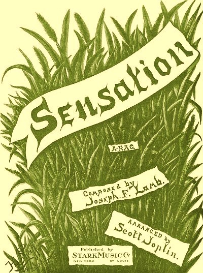 Sensation, 1908. Composed by Joseph Lamb, arranged by Scott Joplin.